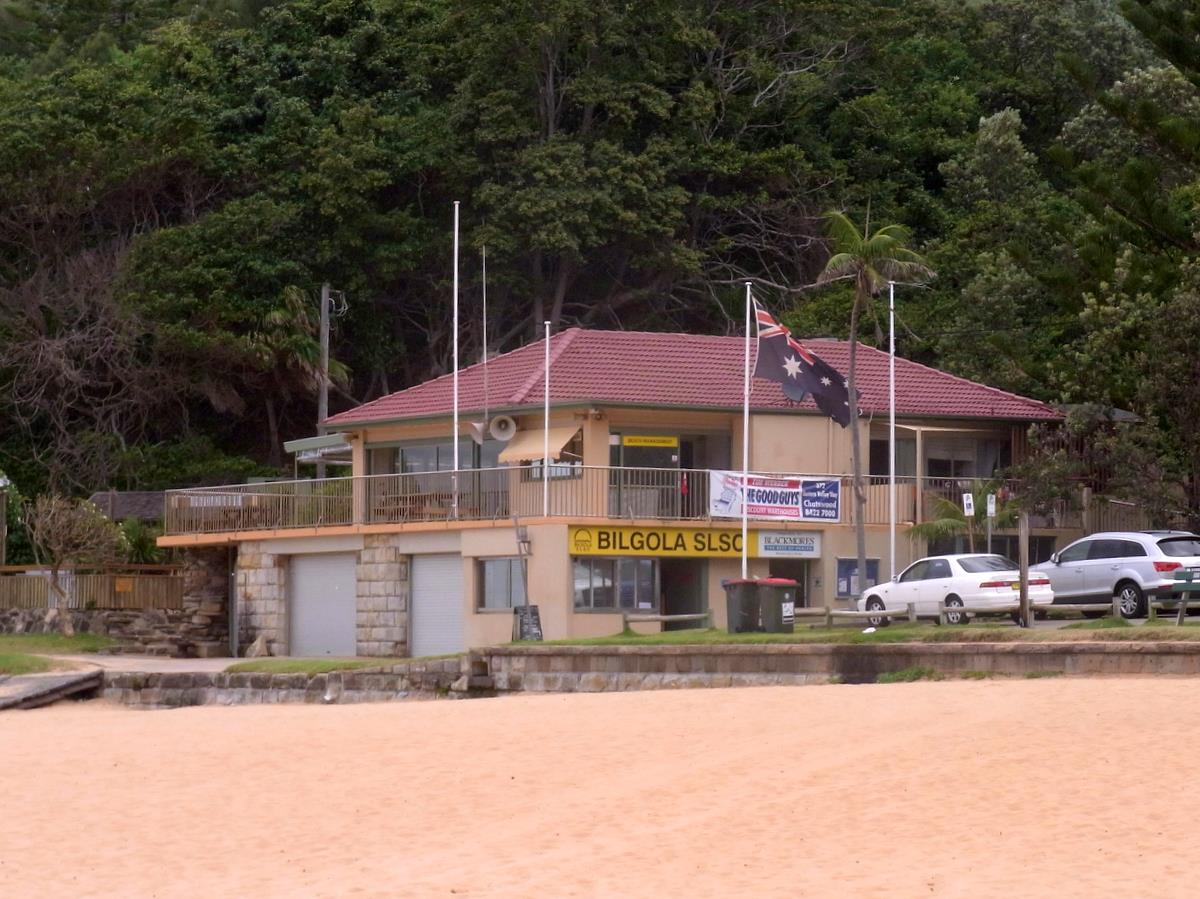 Bilgola Surf Lifesaving Club, NSW, Australia. Original native vegetation in background, however the palm is the non indigenous Howea forsteriana